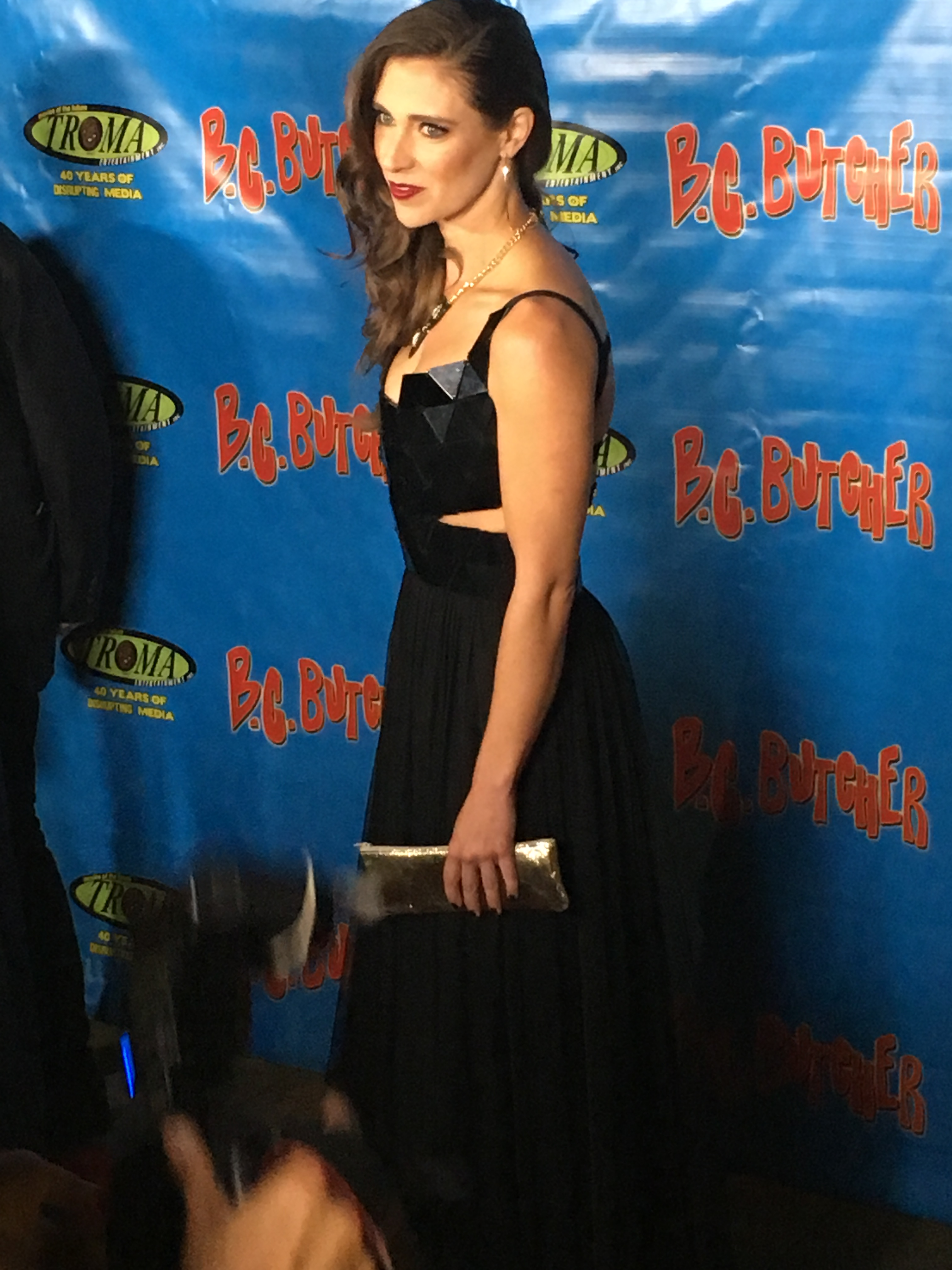 Natasha Halevi on the red carpet for arrivals of B.C. Butcher. Ms. Halevi plays Anaconda, the second in command of the cave clan. Photo Credit: Ryan Godderz (Fractal Clouds)